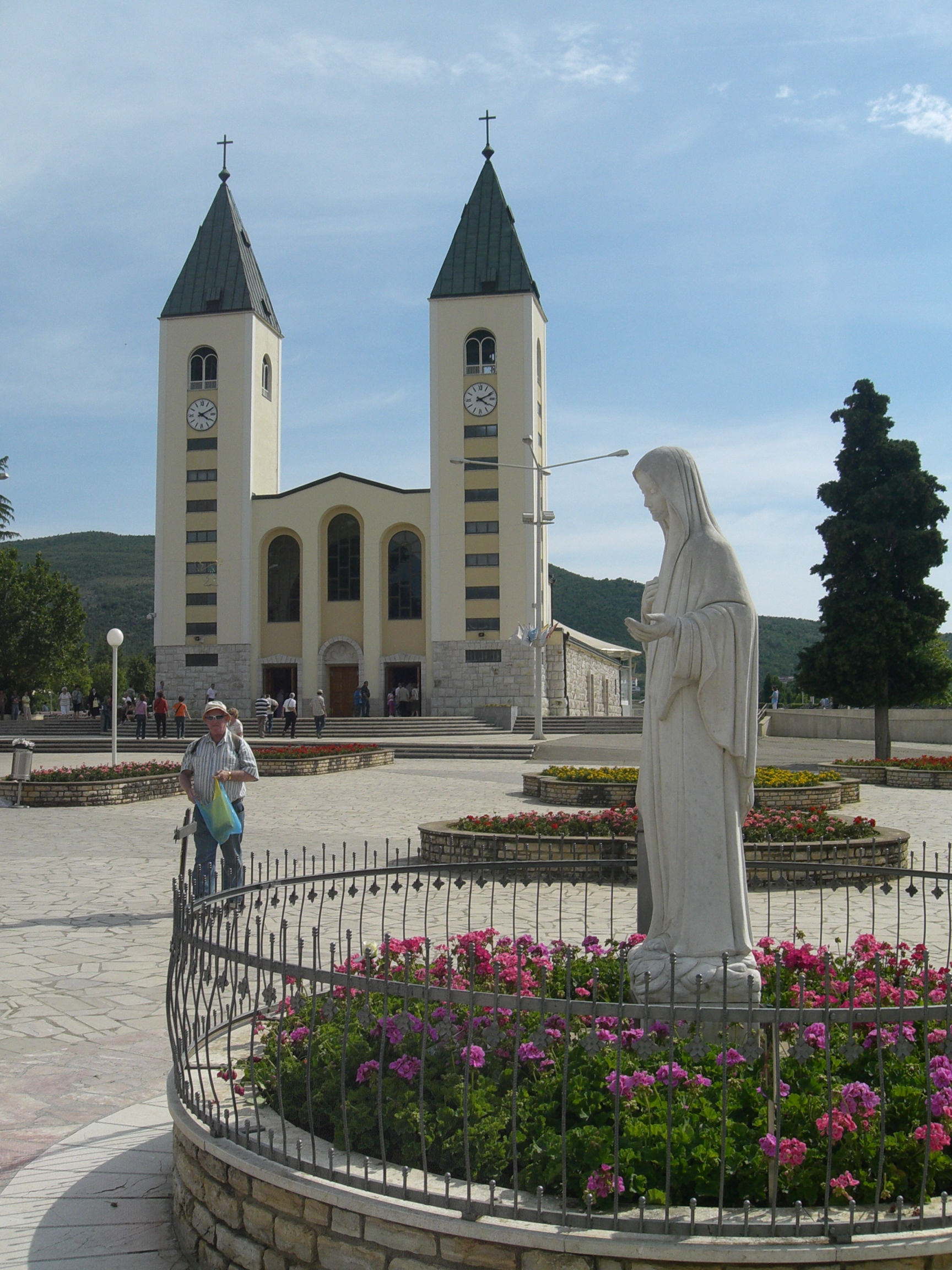 St. Jacob church in Međugorje, Bosnia and Herzegovina